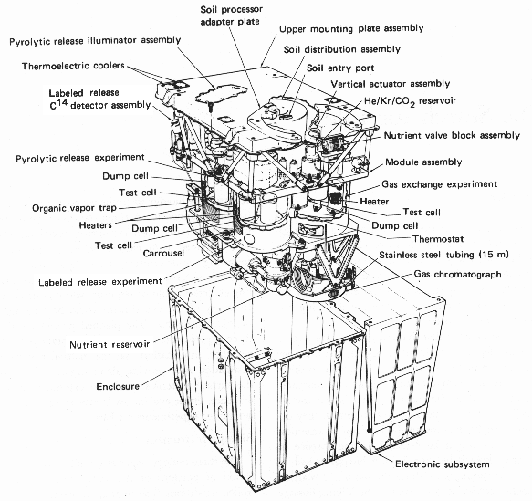 NASA Viking Lander Biological Experiment Package, from NASA